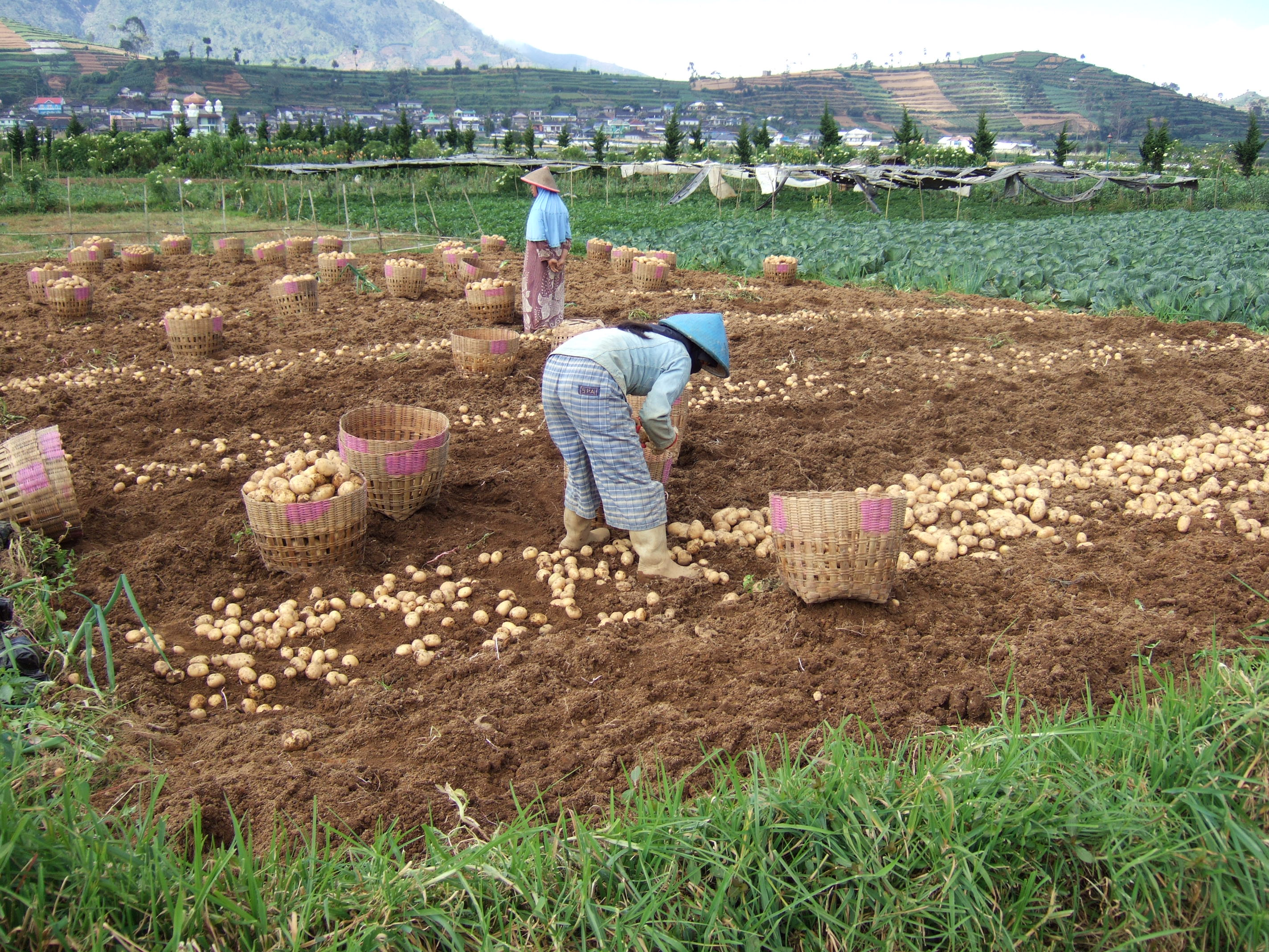 Harvesting potato in Dieng Plateau, Central Java, Indonesia